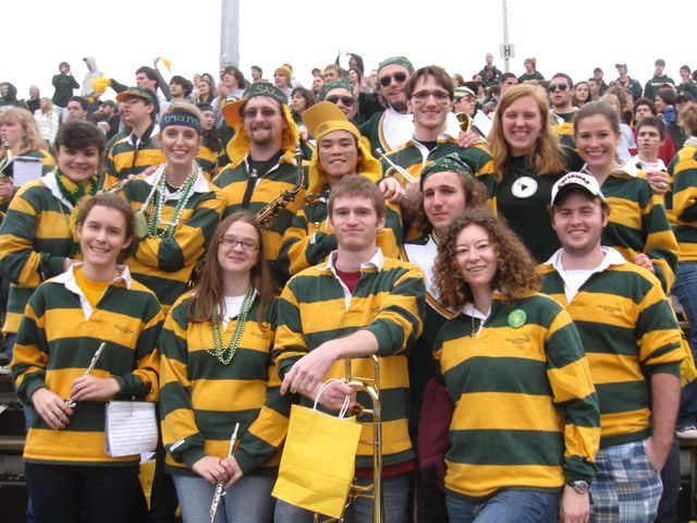 William and Mary Pep Band class of 2010 participants